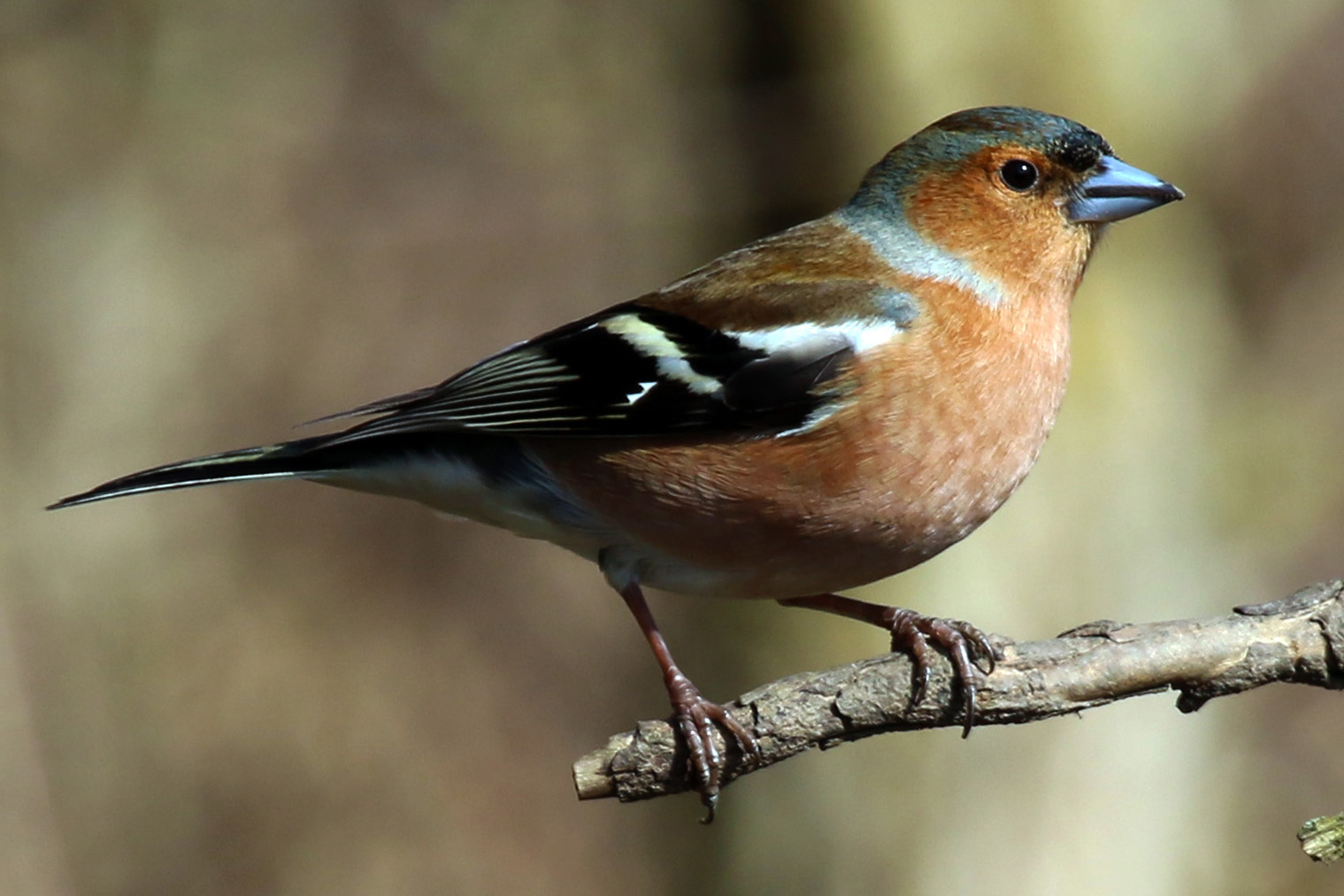 Chaffinch (fringilla coelebs) - male, at Otmoor RSPB reserve, Oxfordshire